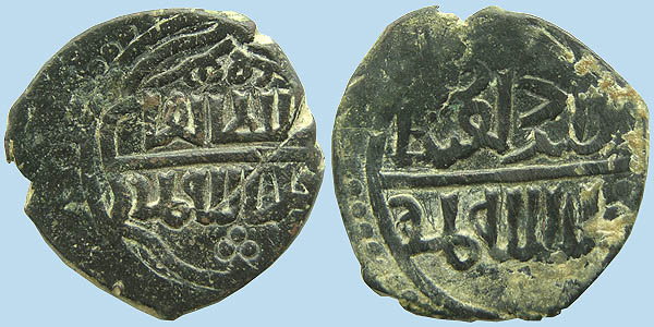 copper coin (mangir) from period of Ottoman Sultan Murad I (1326-1389). Fron of coin: "ES-SULTAN'ÜL A HALLEDALLAHÜ MÜLKEHU". Back: "MURAD BİN ORHAN HALLEDALLAHÜ MÜLKEHU"